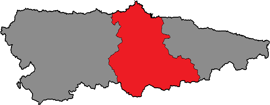 Asturian General Junta Central District.